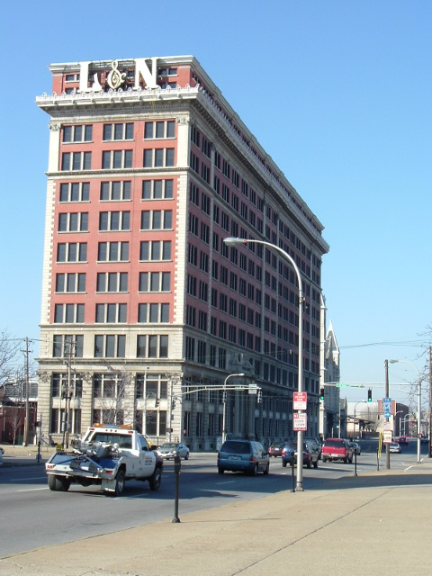 L & N building on Broadway, in LOUKY